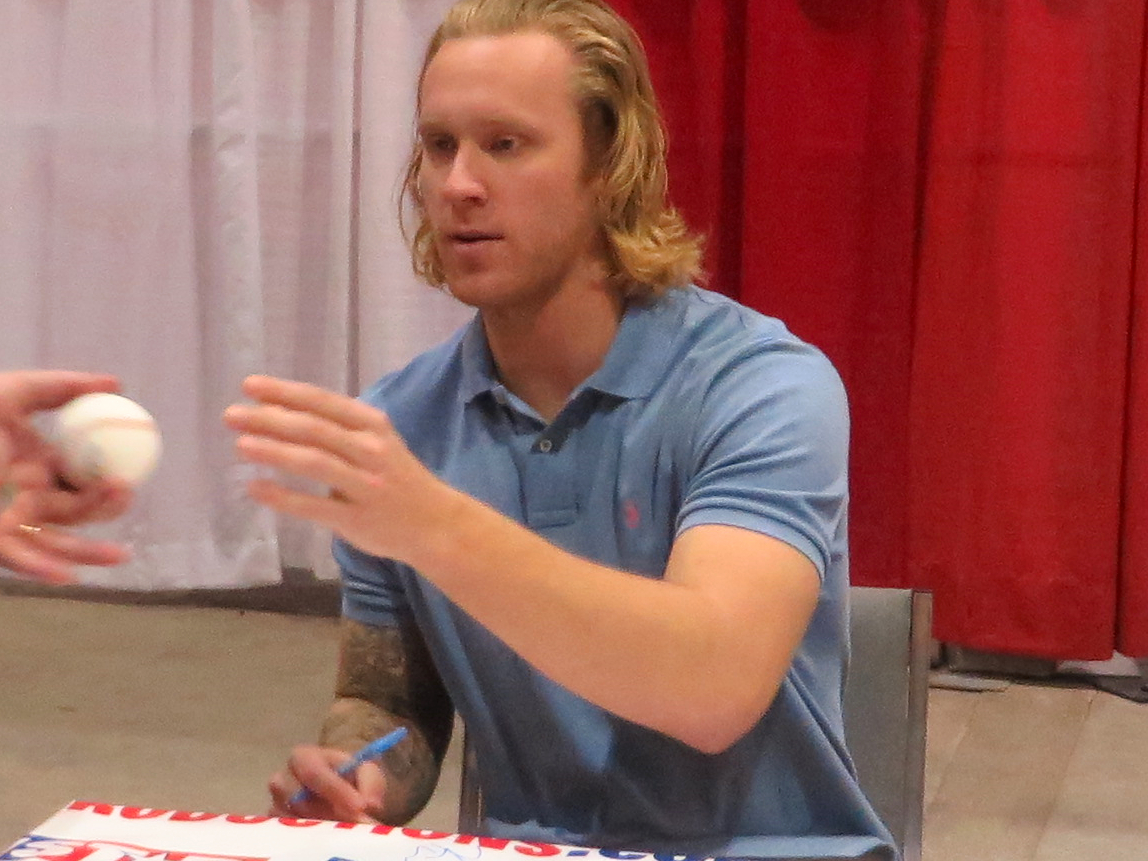 Mike Foltynewicz signs autographs at a Houston sports collectors show in January 2014.